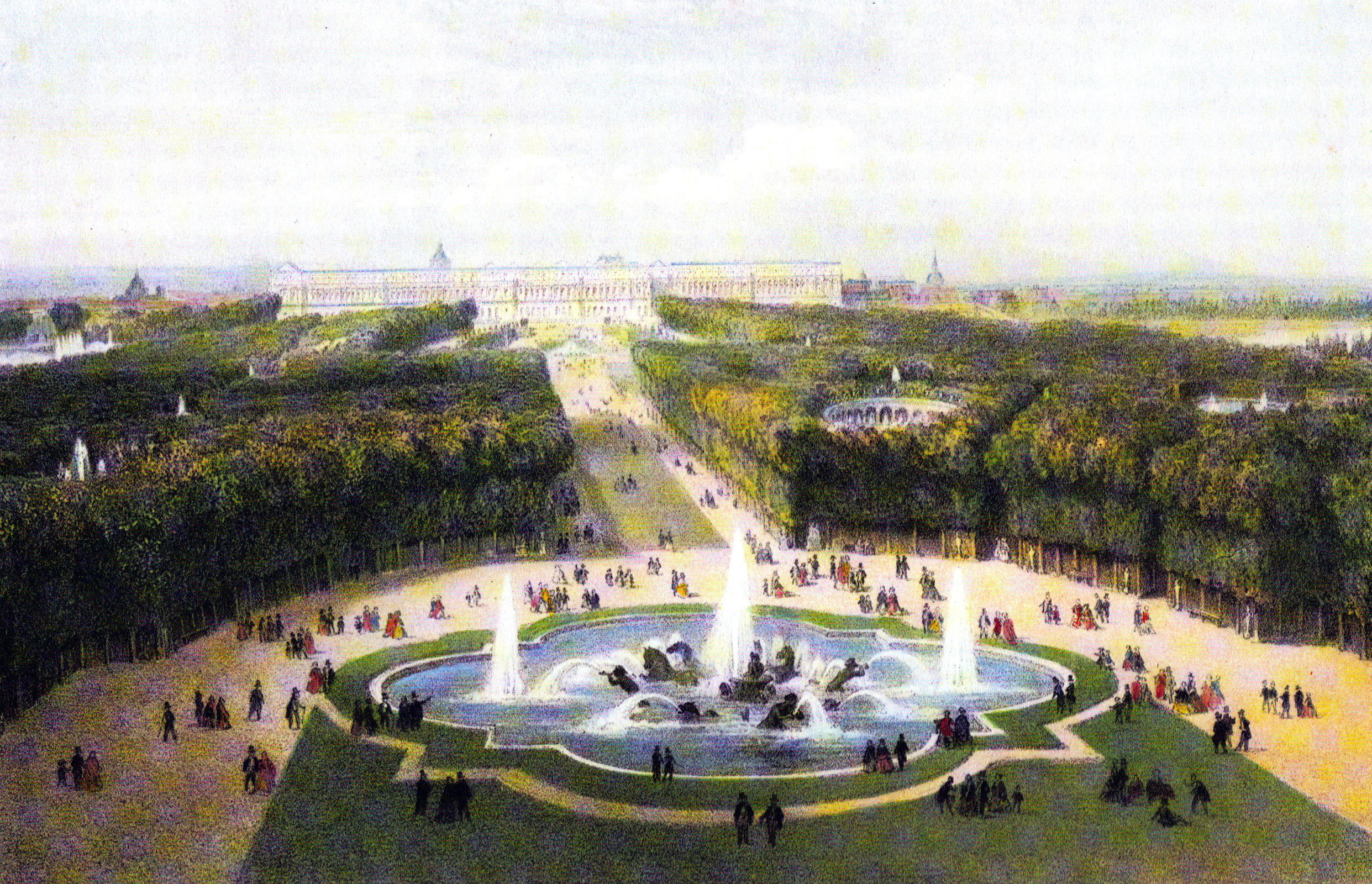 View over the palace gardens and the palace at Versailles, around 1860. Unknown artist.